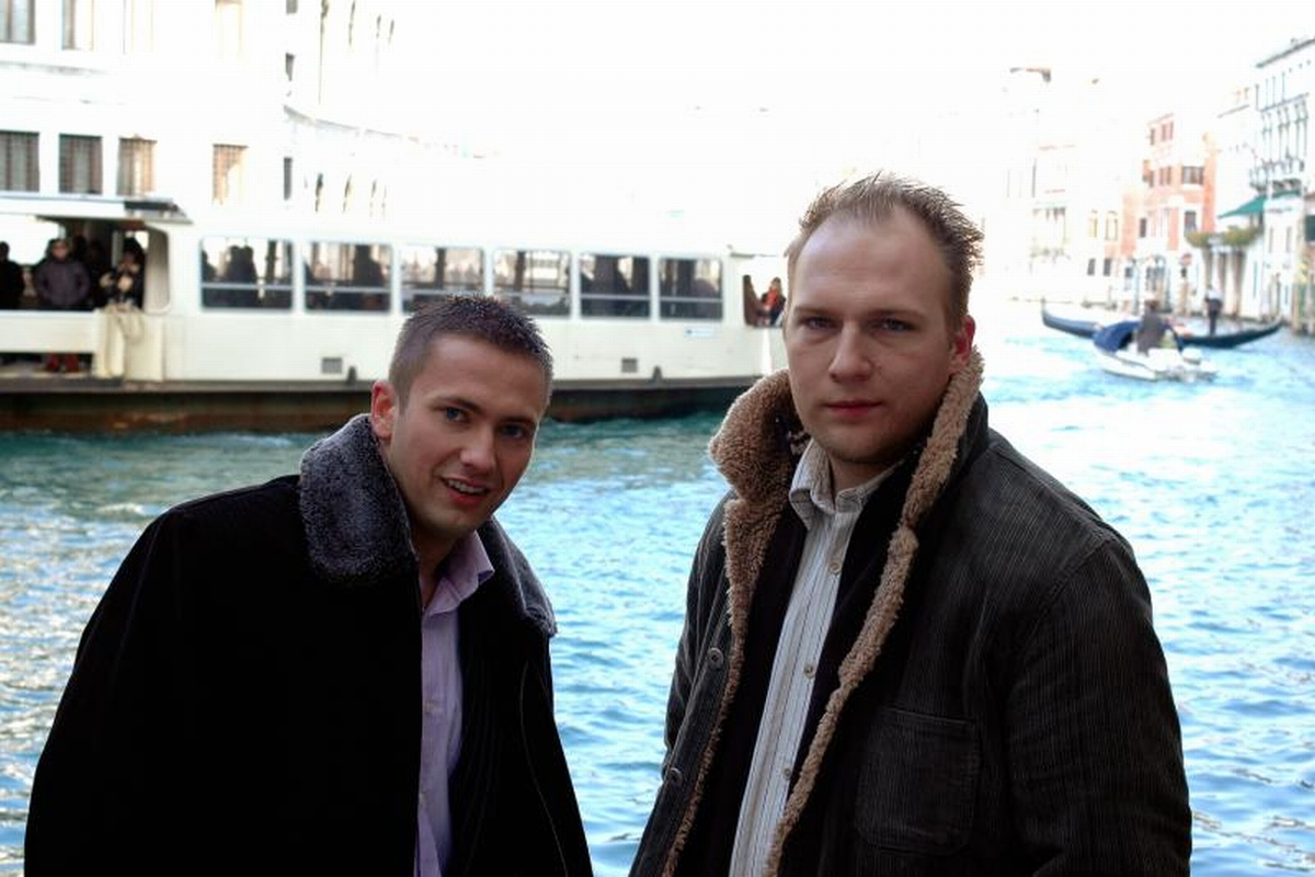 Photo of Verba from Wenecja